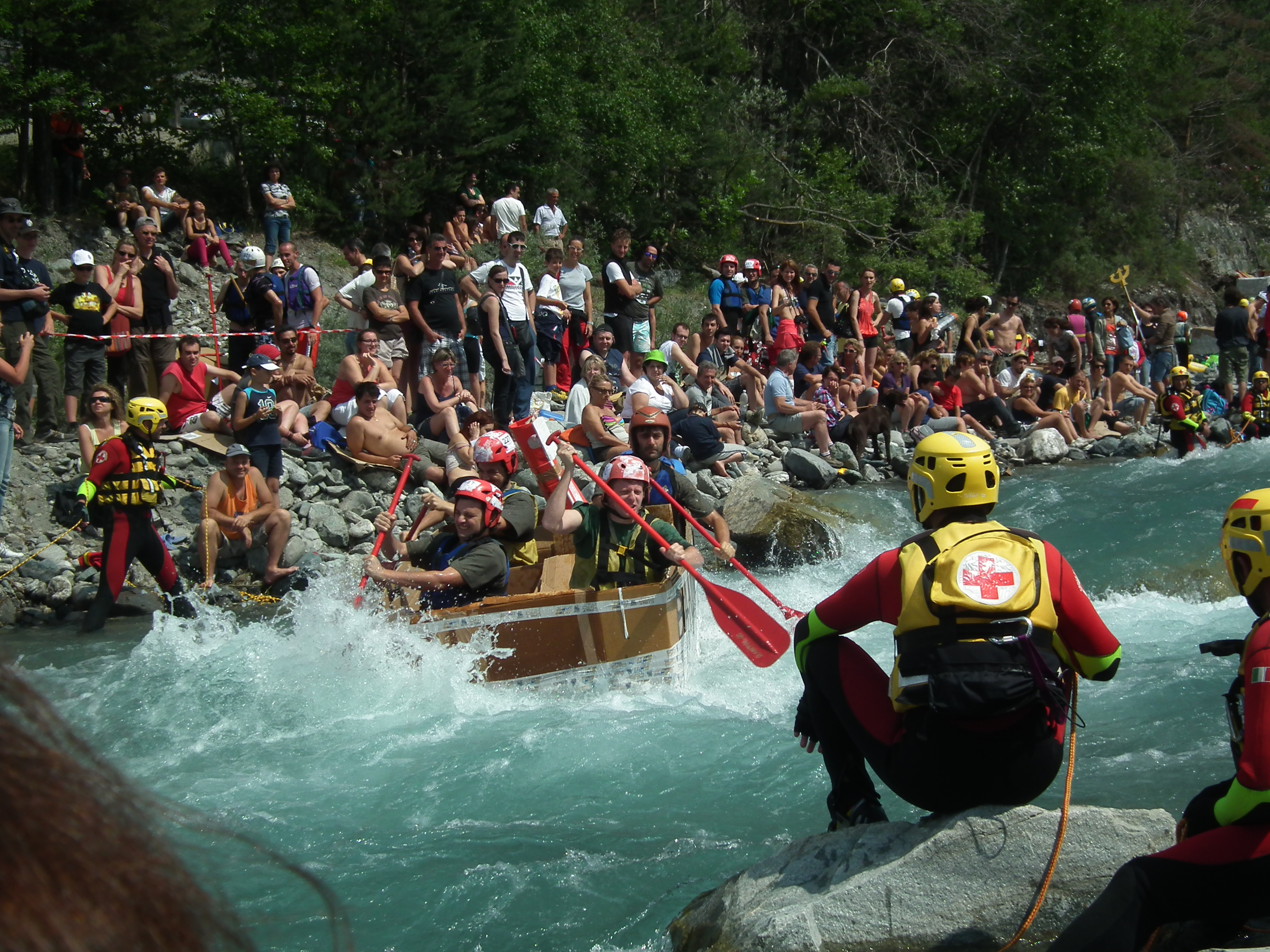 A boat during the 2013 edition of Carton Rapid Race.